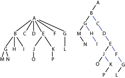 An example of n-ary to binary tree conversion, made by Derrick Coetzee in Illustrator for the article binary tree, based strongly on the ASCII diagram previously in that article.